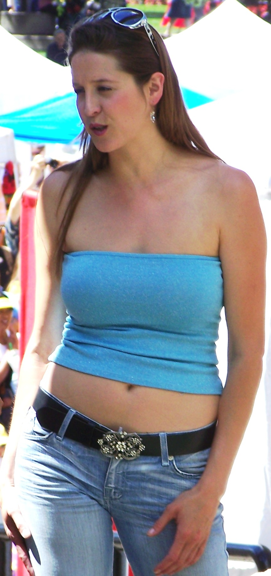 A woman wearing a tube top. The woman was with a group of performers at the first annual "Fiestival", which took place at Olympic Plaza in Calgary, Alberta, Canada.